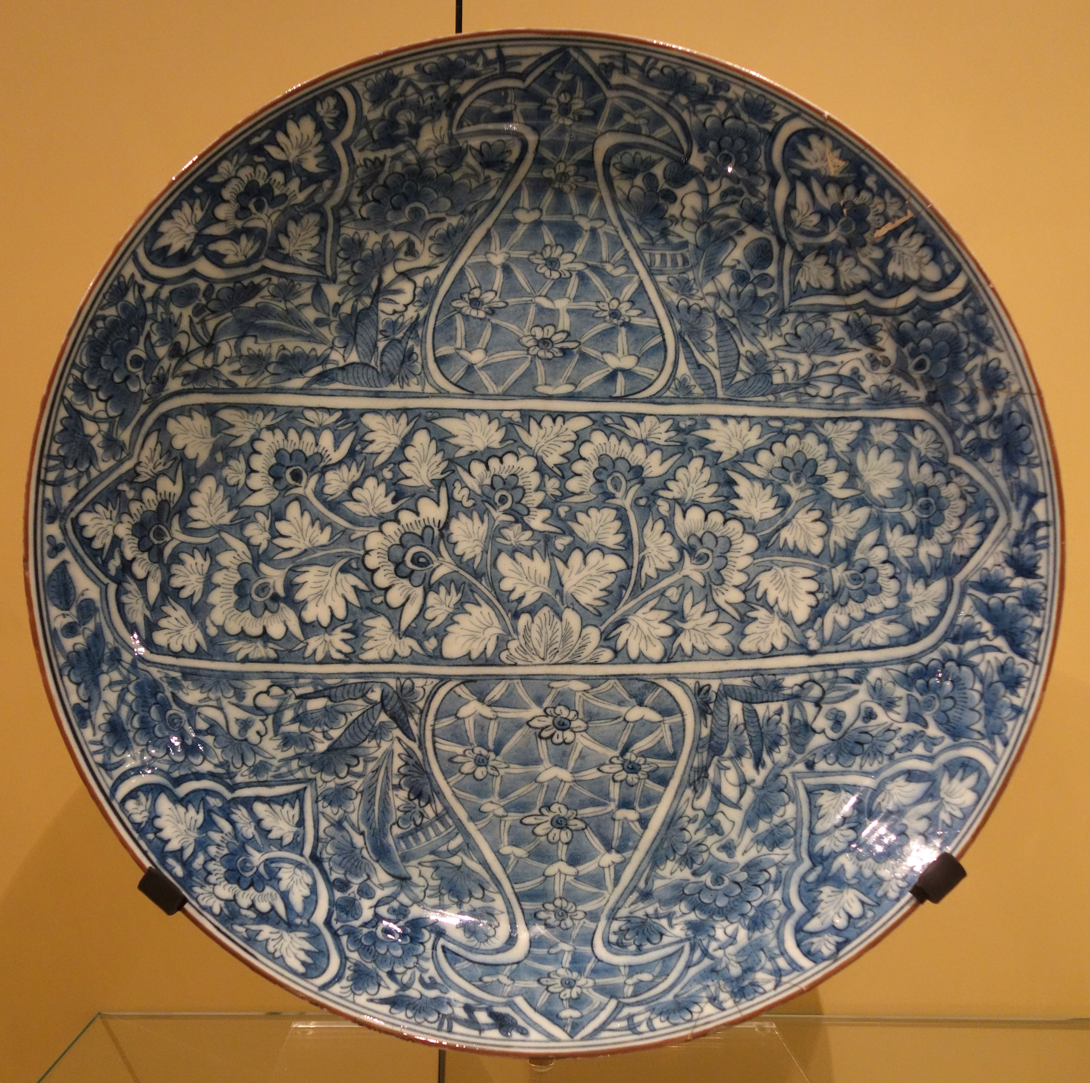 Exhibit in the Royal Ontario Museum, Toronto, Ontario, Canada. This work is old enough so that it is in the public domain.